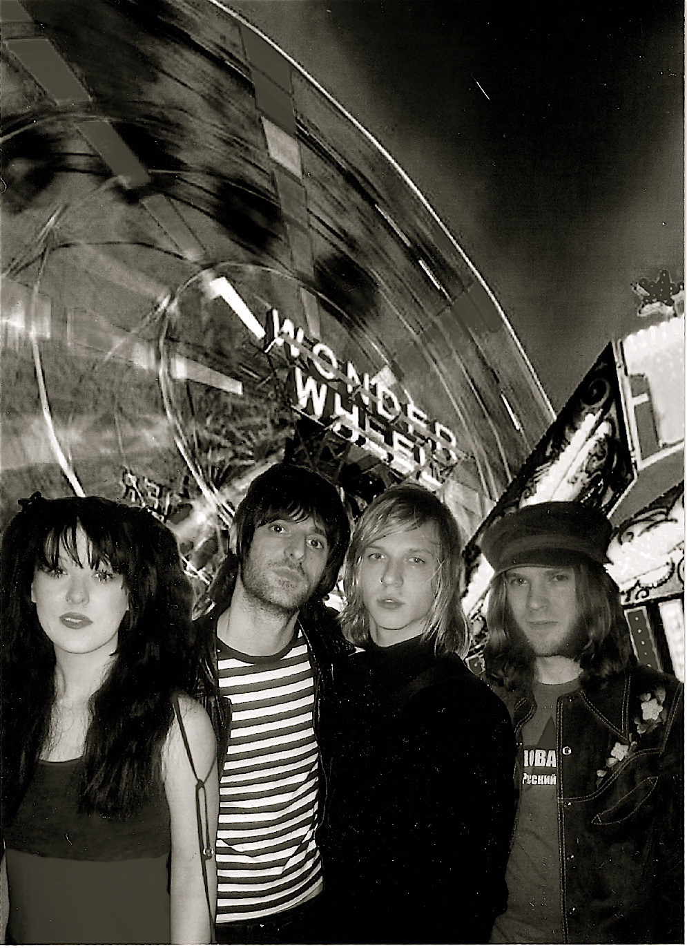 Lapush